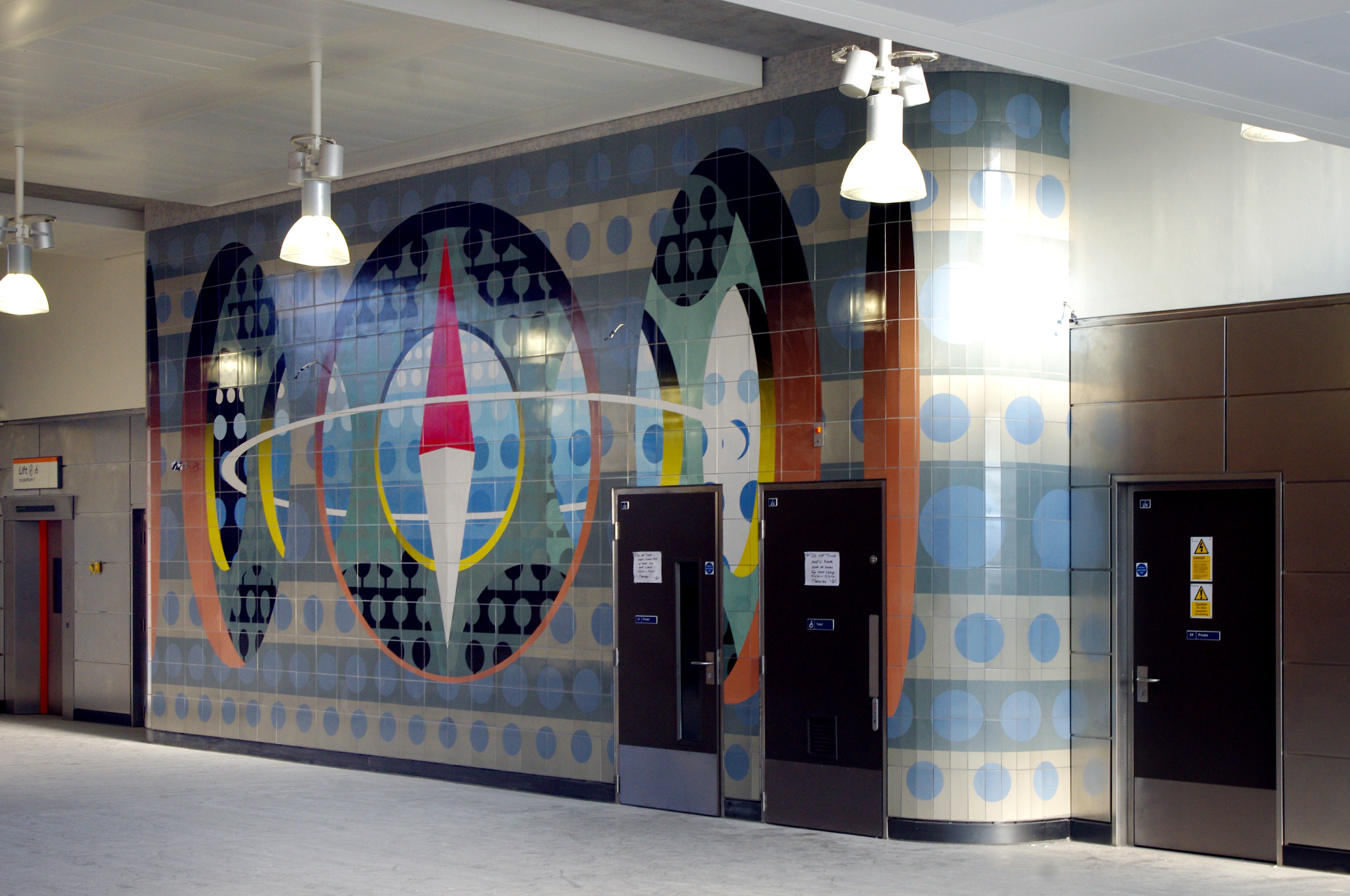 Edmond Halley mural at Haggerston station